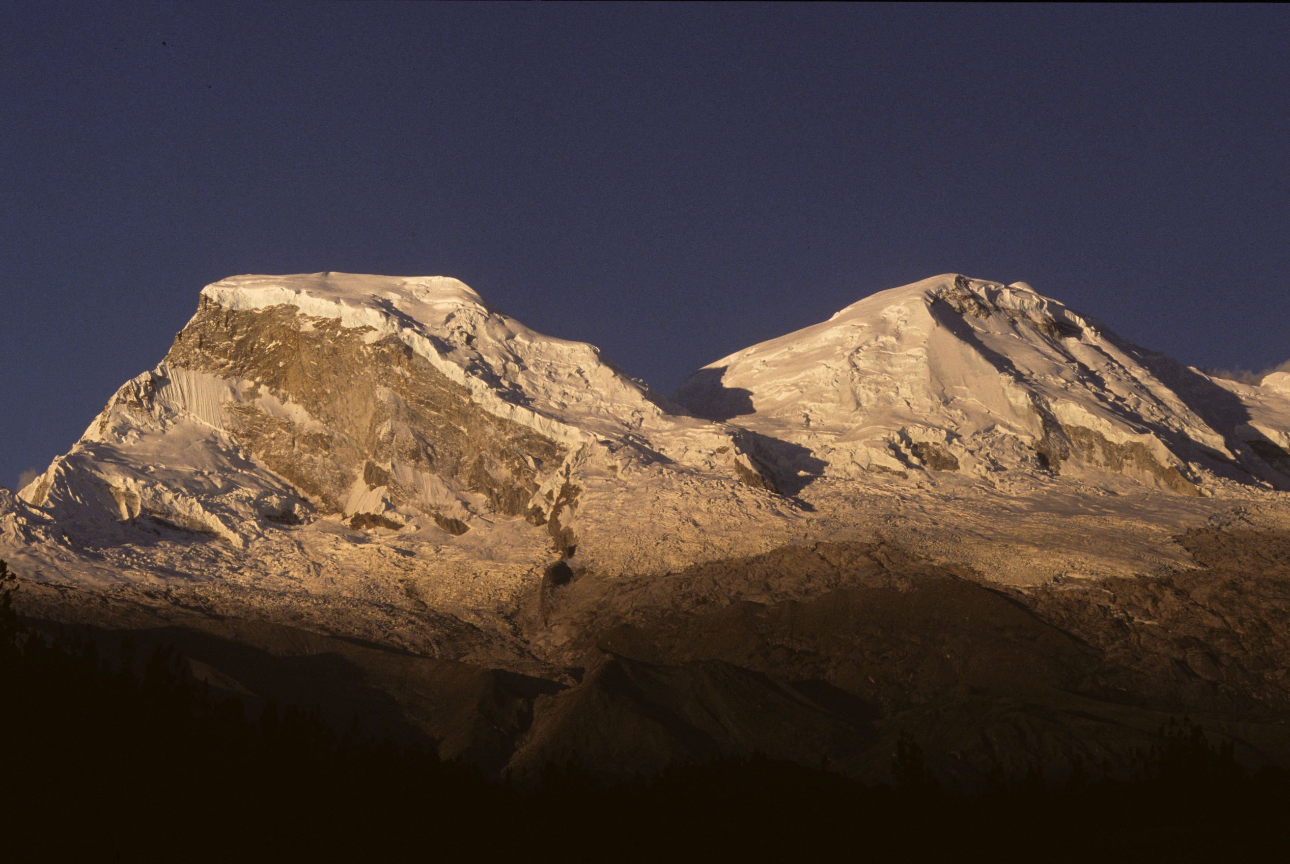 The mighty peaks of Nevado Huascarán Norte (left) and Sur (right)